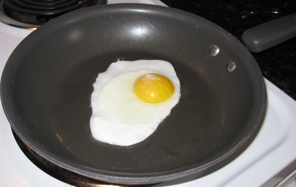 Photo of chicken egg being fried in a pan